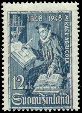 Postage stamp depicting the Finnish bishop and founder of written Finnish language, Mikael Agricola